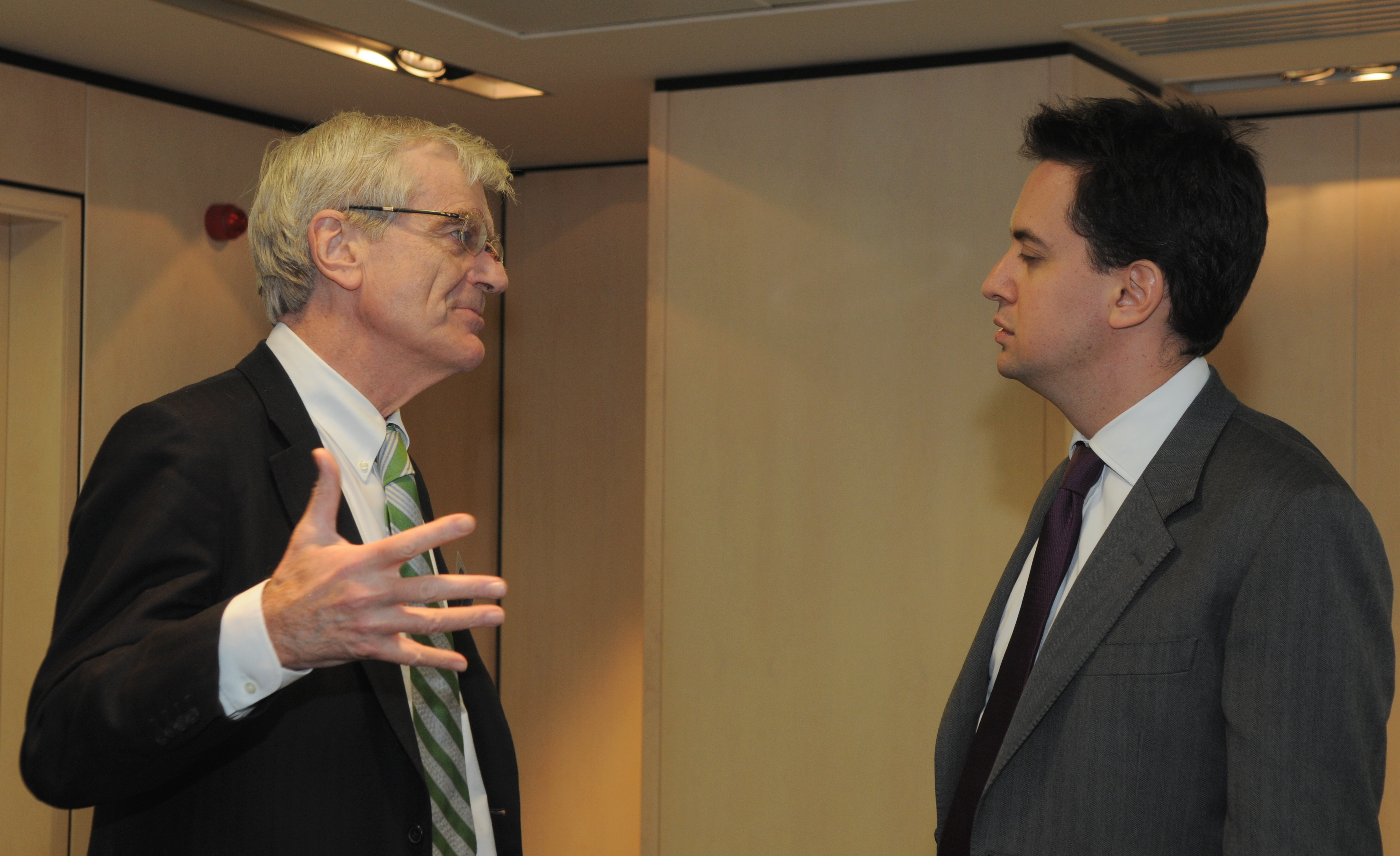 Richard Lambert (left), Director-General of the Confederation of British Industry, and Ed Miliband (right), UK Secretary of State for Energy and Climate Change, speaking at the CBI Climate Change Summit 2008 at The Royal Lancaster Hotel, London.